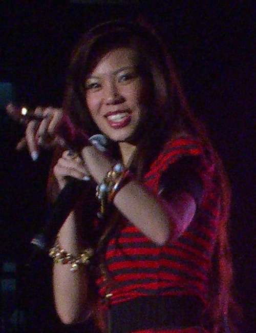 Mel Yang at Taiwan Shin Hsin University 50th anniversary celebrations concert 楊韻禾 於台灣世新大學50周年校慶演唱會上